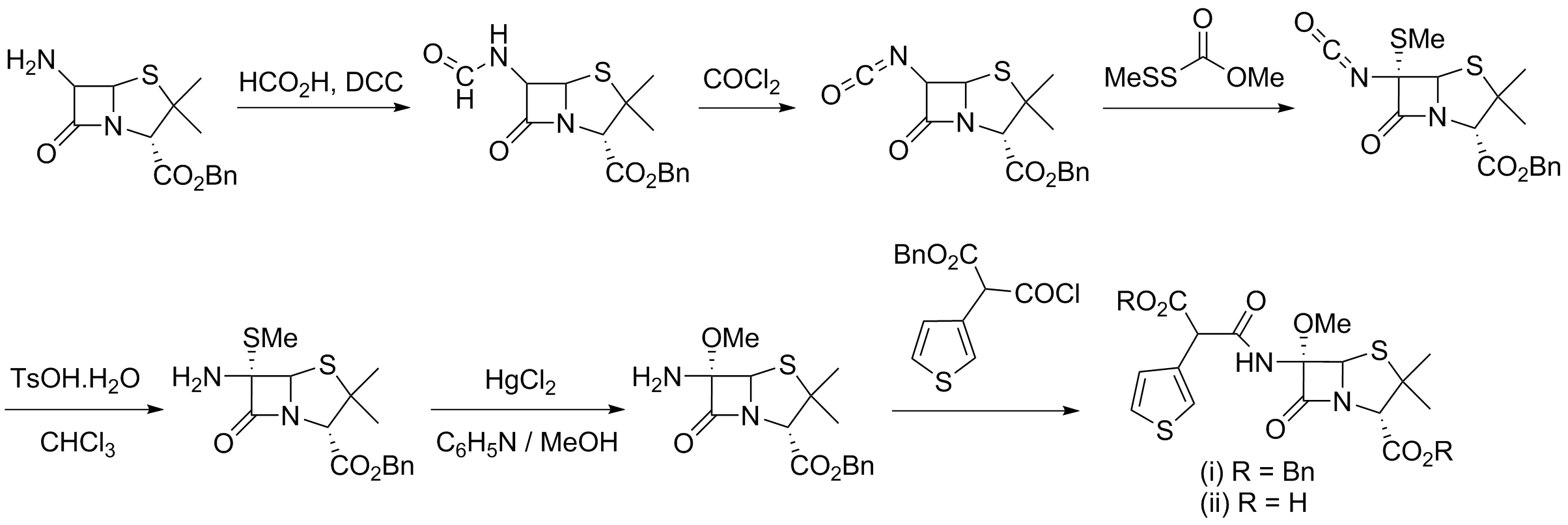 J. Chem. Soc., Perkin Trans. 1, 1979, 2455-2467